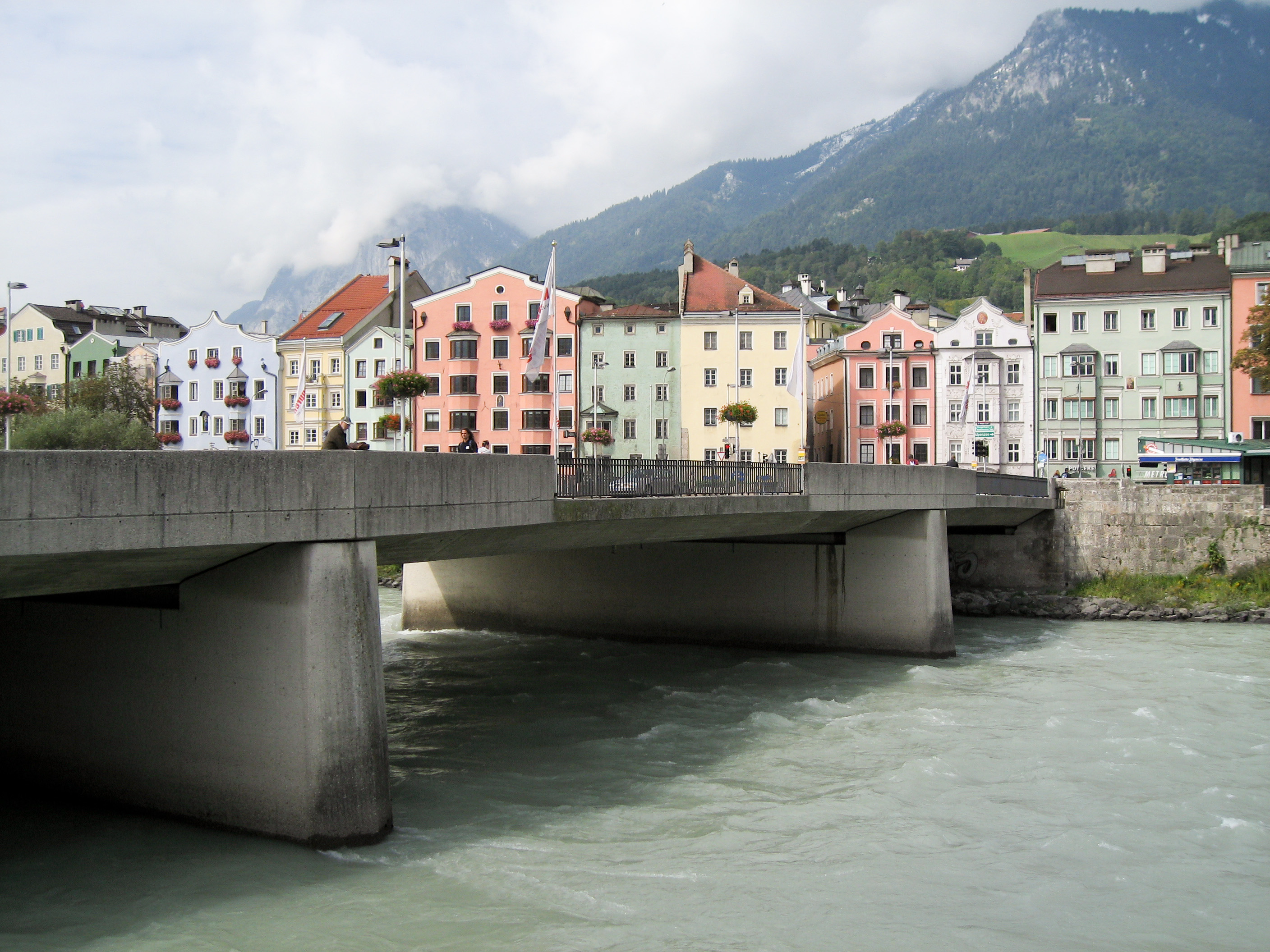 The Inn River and Inn bridge at Innsbruck, Austria.